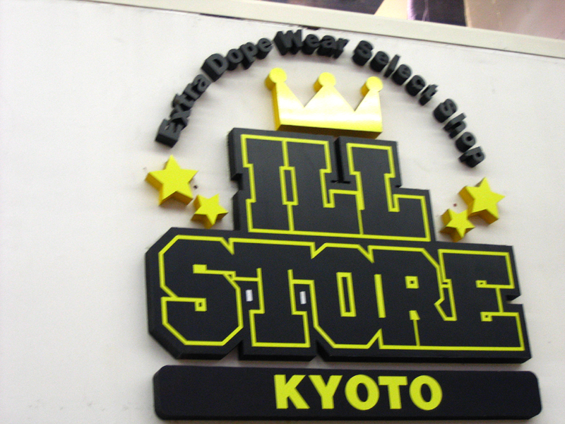 A shop in Teramachi Street, Kyoto, Japan. Branding is in English for aesthetic purposes.